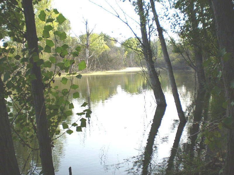 Manzanares River, in Monte de El Pardo. Community of Madrid, Spain